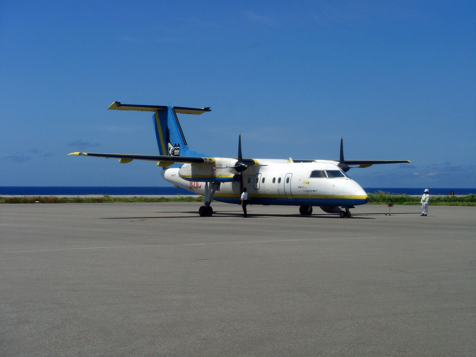 JA8972, a de Havilland Canada DHC-8-103Q Dash 8 of Ryukyu Air Commuter (琉球エアーコミューターDHC-8型機)